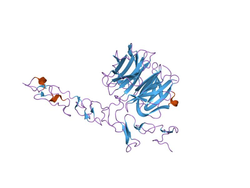 Cartoon representation of the molecular structure of protein registered with 1npe code.